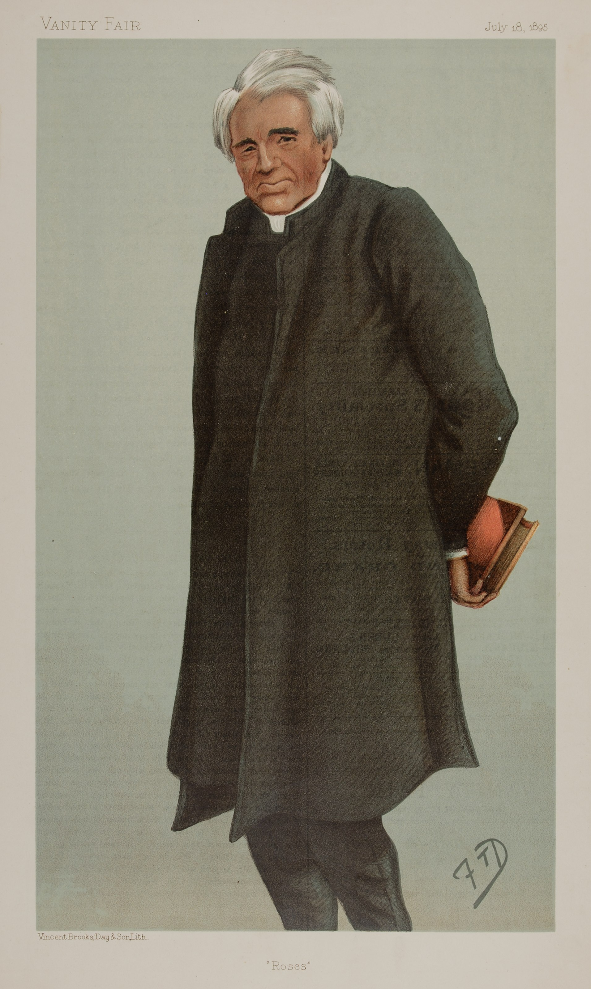 Men of the Day No. 624: Caricature of Samuel Reynolds Hole, Dean of Rochester. Caption read "Roses".